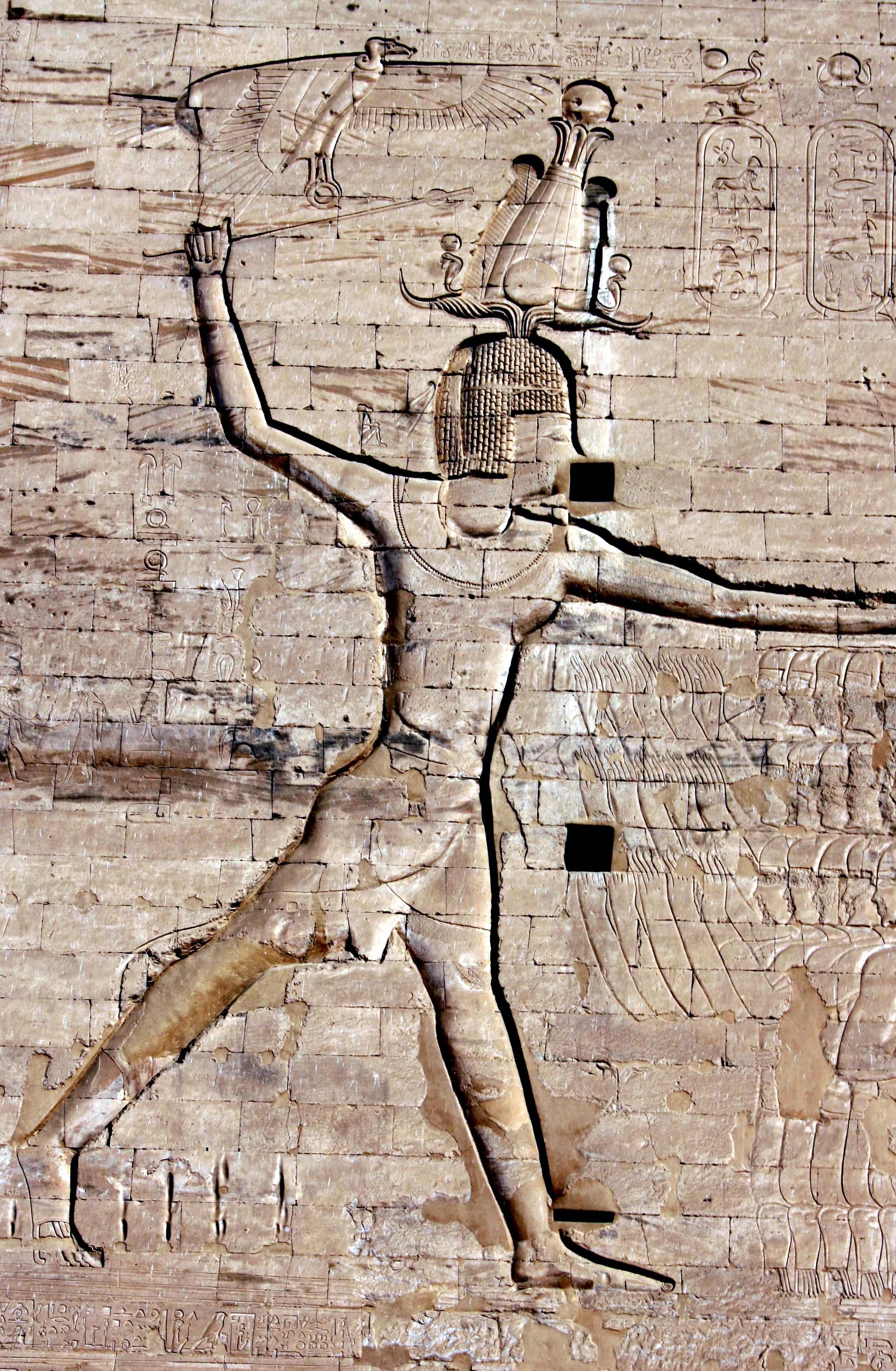 Edfu_Tempel, Pylon, Wandrelief